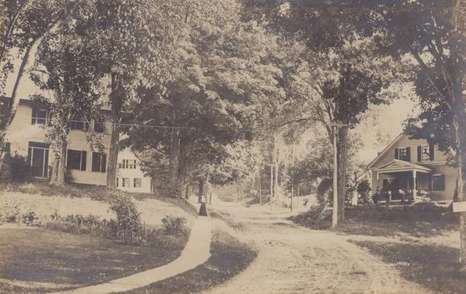 Street scene, Walpole, New Hampshire